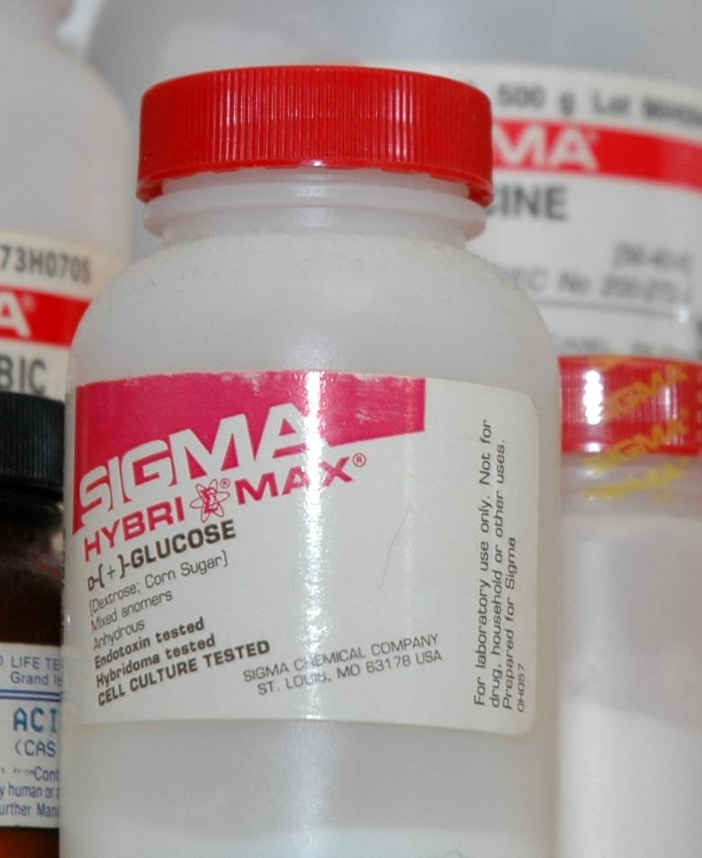 Title: Technology: Lab Description: Various chemicals used in the lab. Subjects (names): Topics/Categories: Technology -- Lab Type: Digital Color Source: National Cancer Institute Author: Diane A. Reid, Photographer Date Created: February 3, 2005 Date Added: 6/9/2005 Reuse Restrictions: None - This image is in the public domain and can be freely reused. Please credit the source and/or author listed above. -cropped from original picture to show the glucose bottle